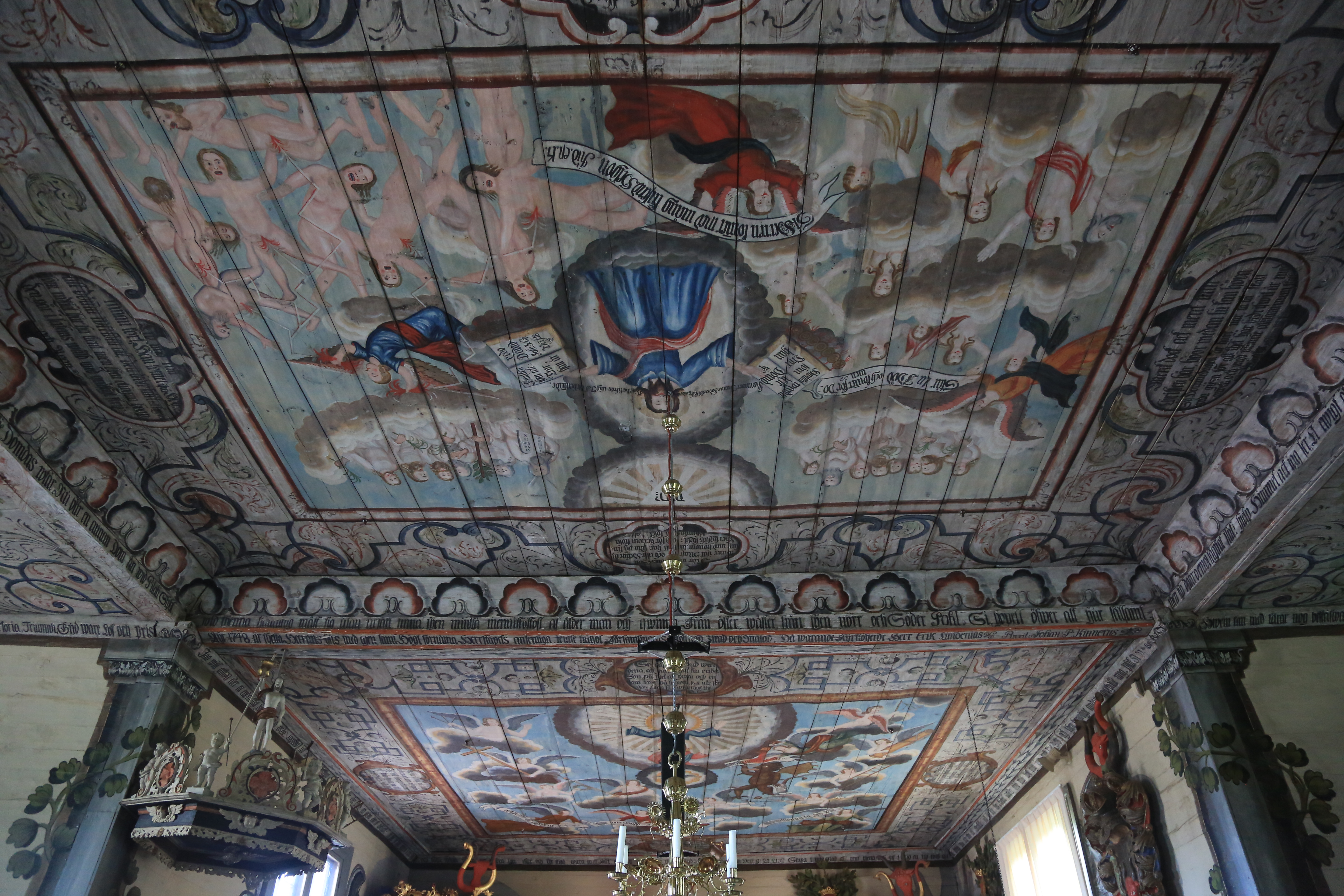 Painting in the ceiling of Brandstorps church.